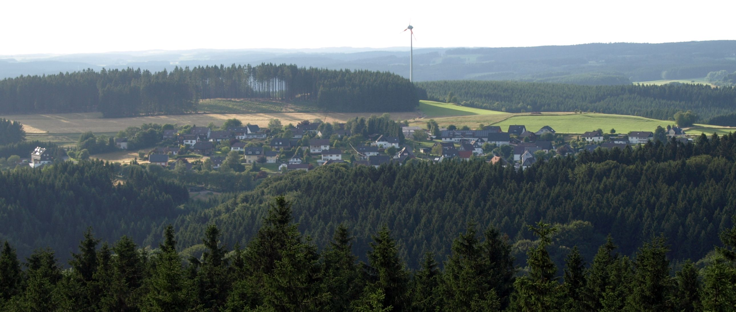 view of Dannenberg (Marienheide) from Aussichtsturm Unnenberg